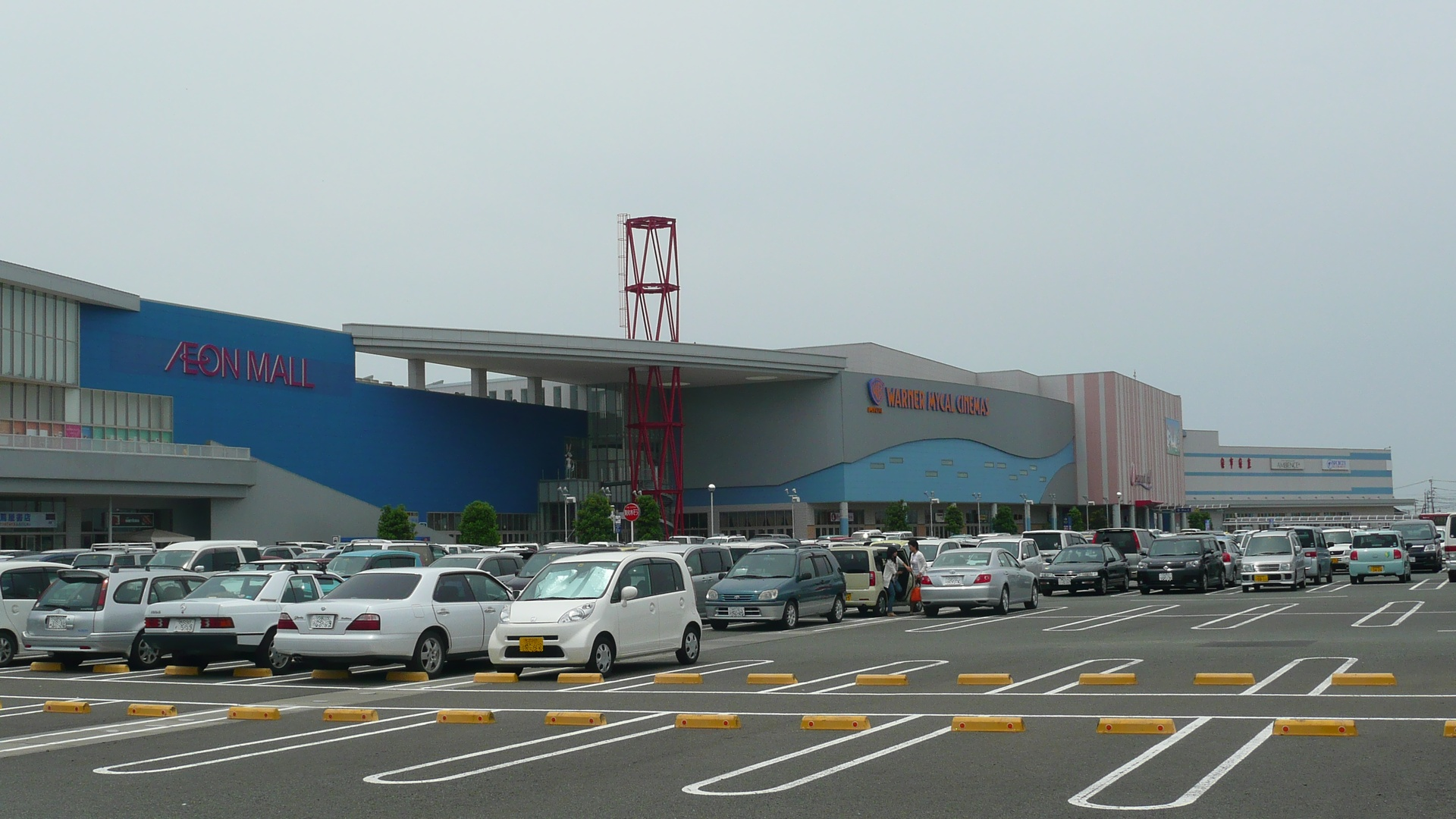 Aeonmall Kumamoto Clair (Kashima Town, Kumamoto, Japan)